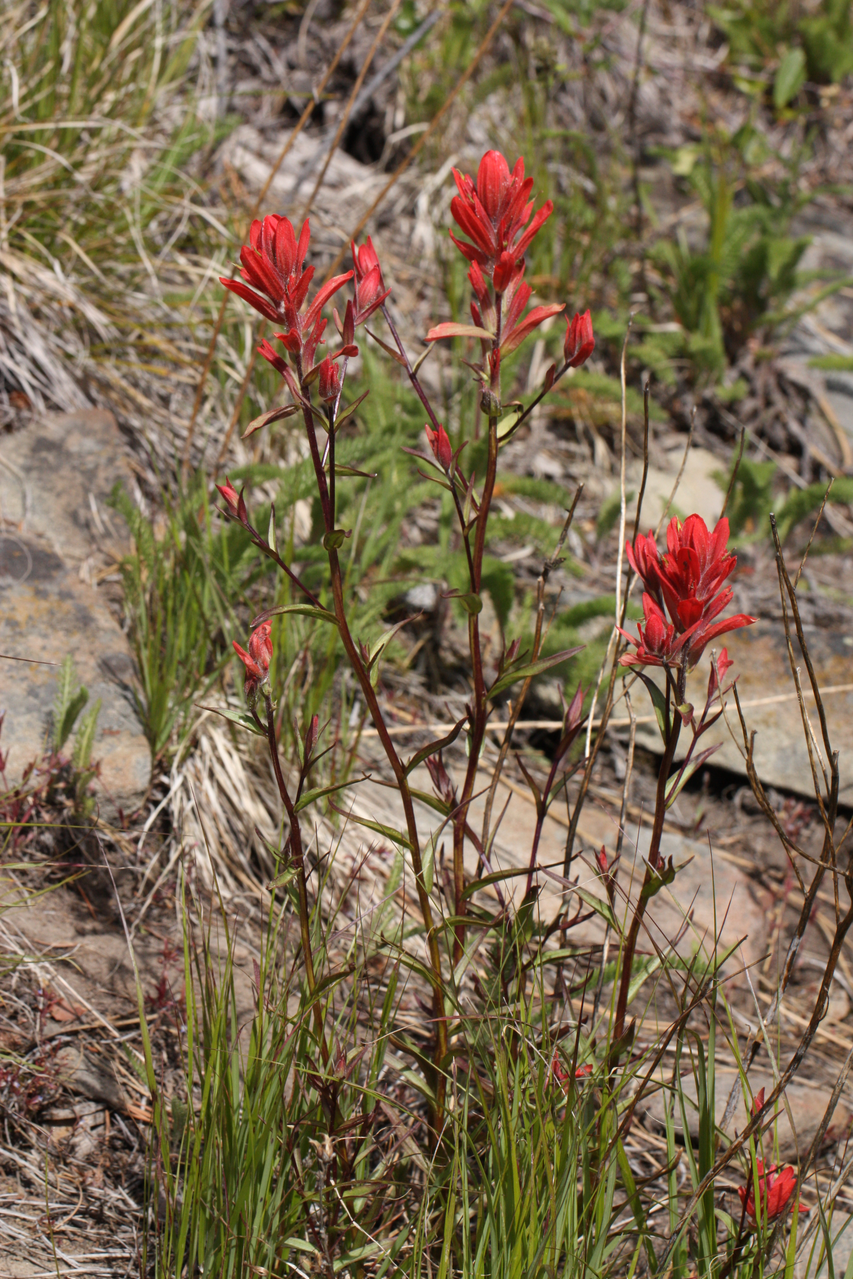 Scarlet Paintbrush Viewpoint location: Tronsen Ridge Trail #1204, Tronsen Ridge Viewpoint elevation: 1424 meter (4671 ft) Location source: Garmin GPSmap 60CSx Location Datum: WGS84